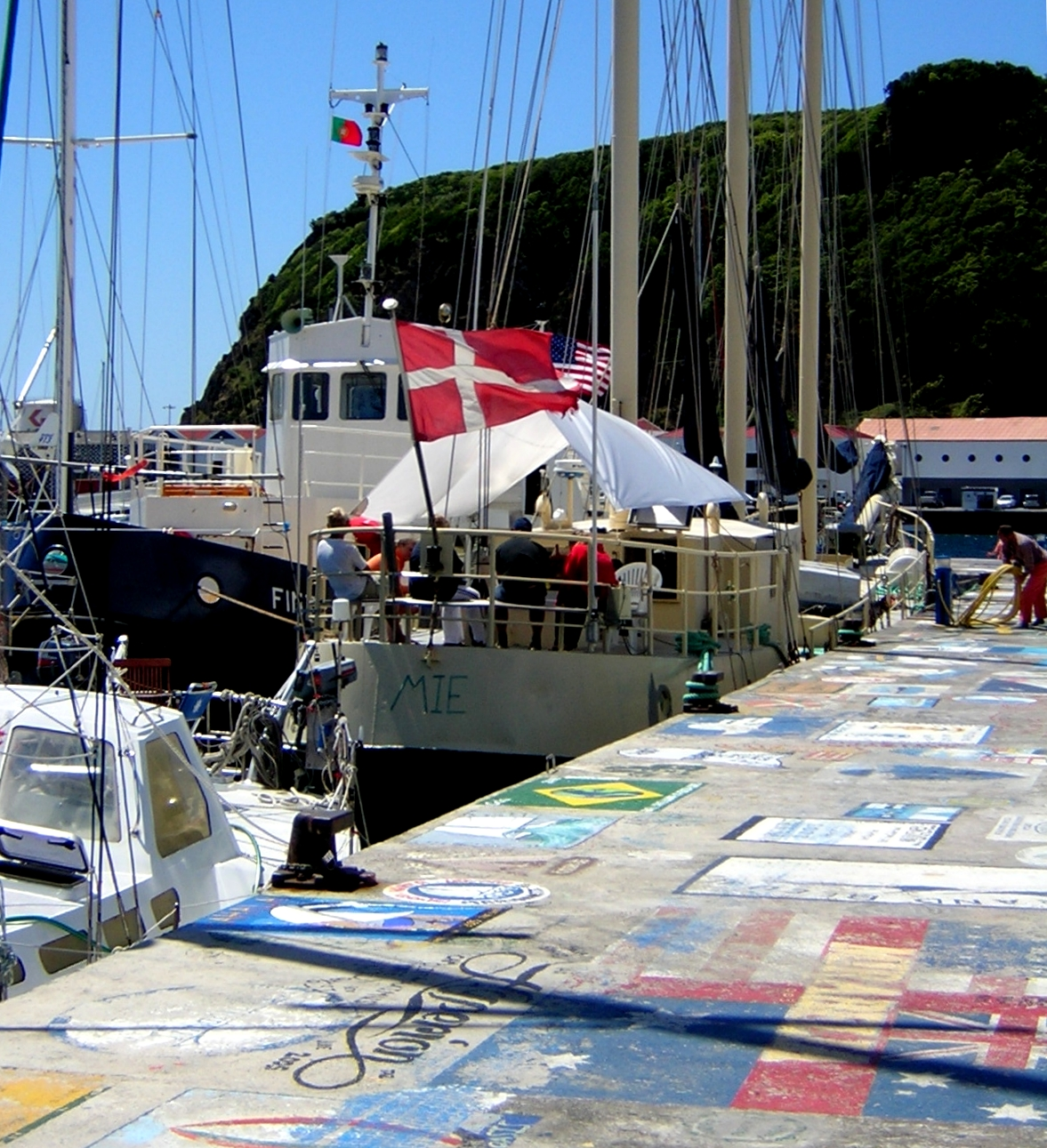 A pier at Horta Marina, showing calling cards of visiting yachts painted on the ground.